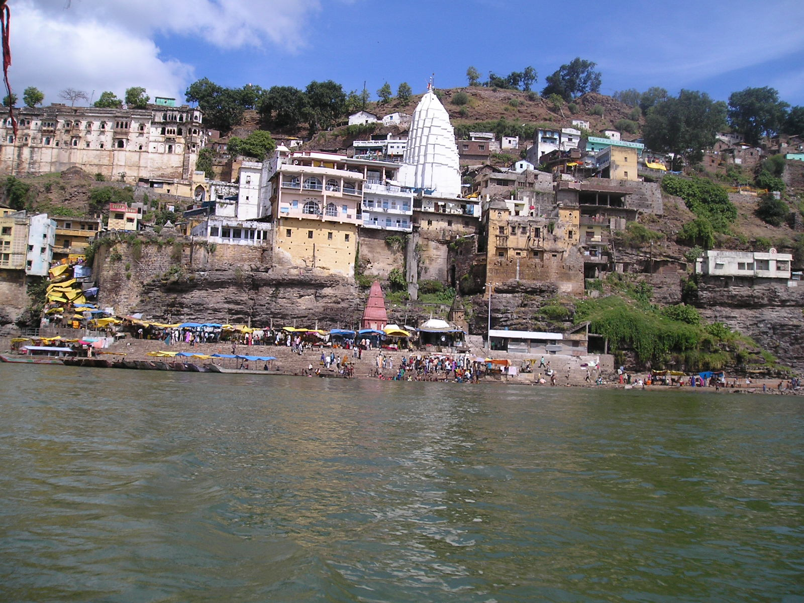 Omkareshwar temple.